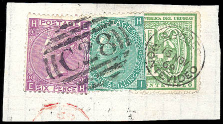 Uruguay fragment with barred oval "C28" of British Post Office Abroad in Montevideo, Great Britain 6d + 1sh + Uruguay 1866-67 10c Numeral.